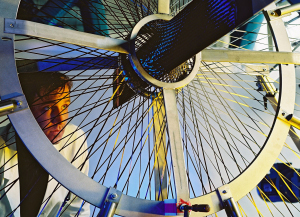 Wheel and EADS technician